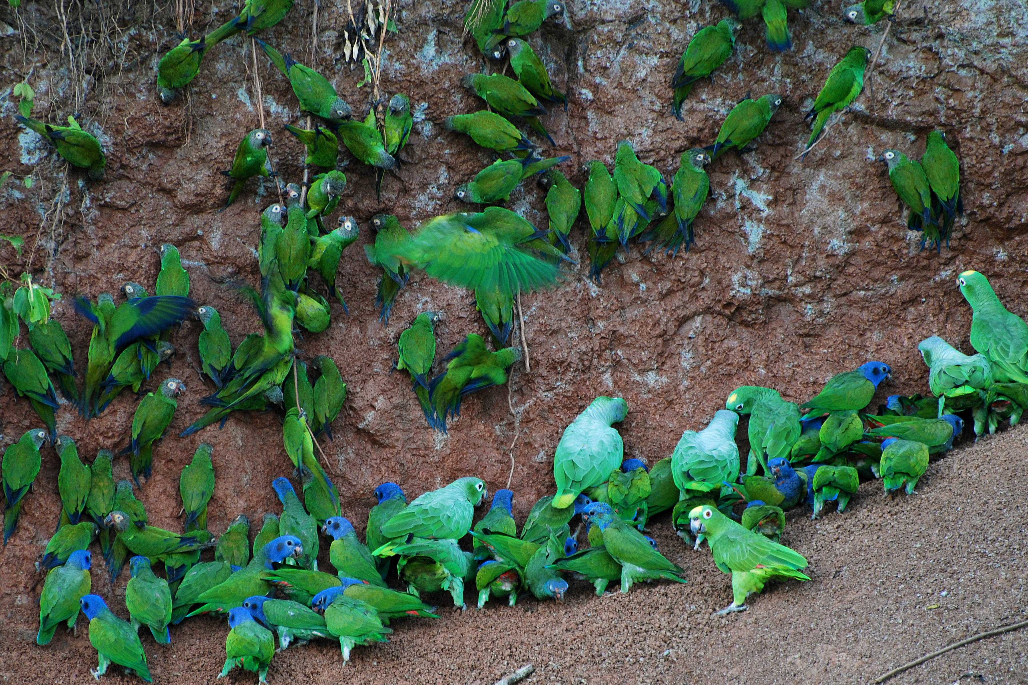 Many parrots at clay lick in Anangu, Yasuni National Park, Ecuador. Species seen are Blue-headed Pionus (Pionus menstruus), Dusky-headed Parakeet (Aratinga weddellii), Mealy Amazon (Amazona farinosa farinosa) and Yellow-crowned Amazon (Amazona ochrocephala)